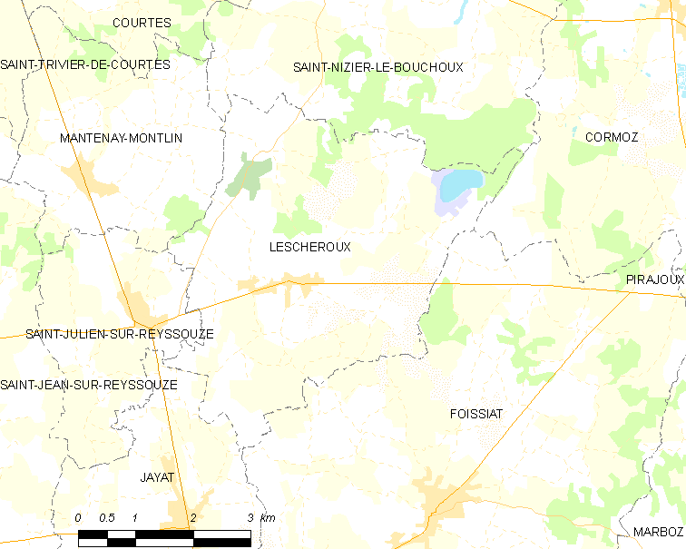 Map of French commune: Lescheroux Map commune FR insee code 01212.png